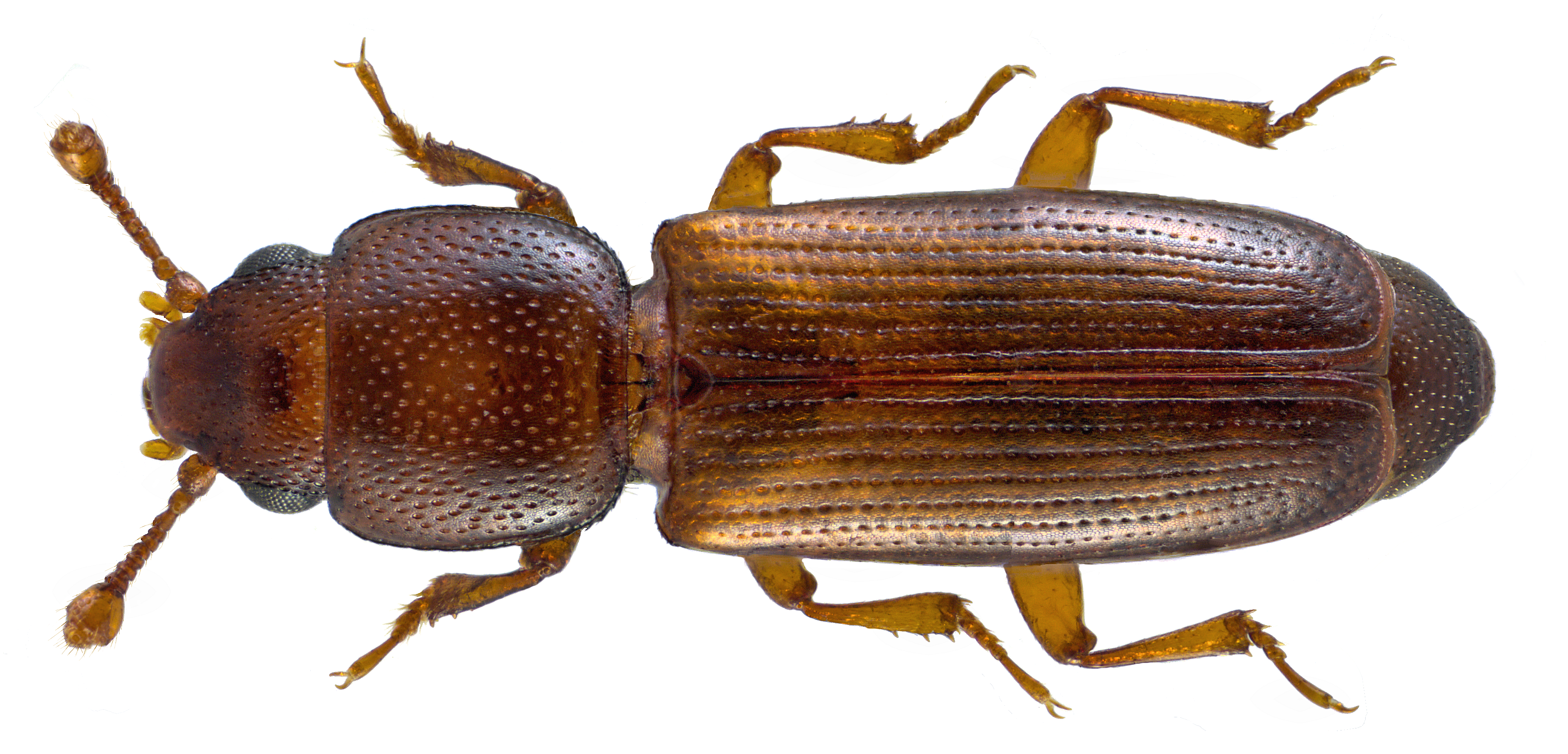 Family: Monotomidae Size: 2,4 mm (2,0-2,8 mm) Origin: Europe Ecology: under deciduous trees bark Location: Germany, Bavaria, Upper Franconia, Neustaedtlein am Forst, Waldhuette leg.det. U.Schmidt, 15.V.1996 Photo: U.Schmidt, 2014